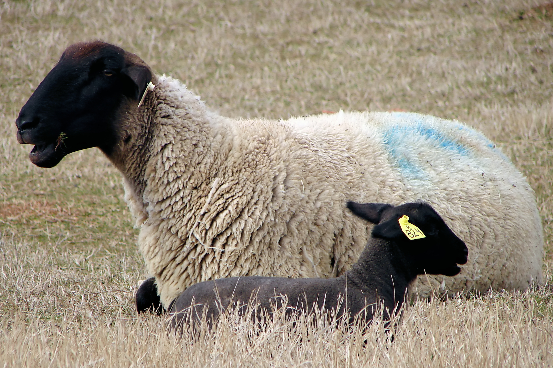 A ewe laying down to chew her cud with her lamb. They are both wearing ear tags for identification.